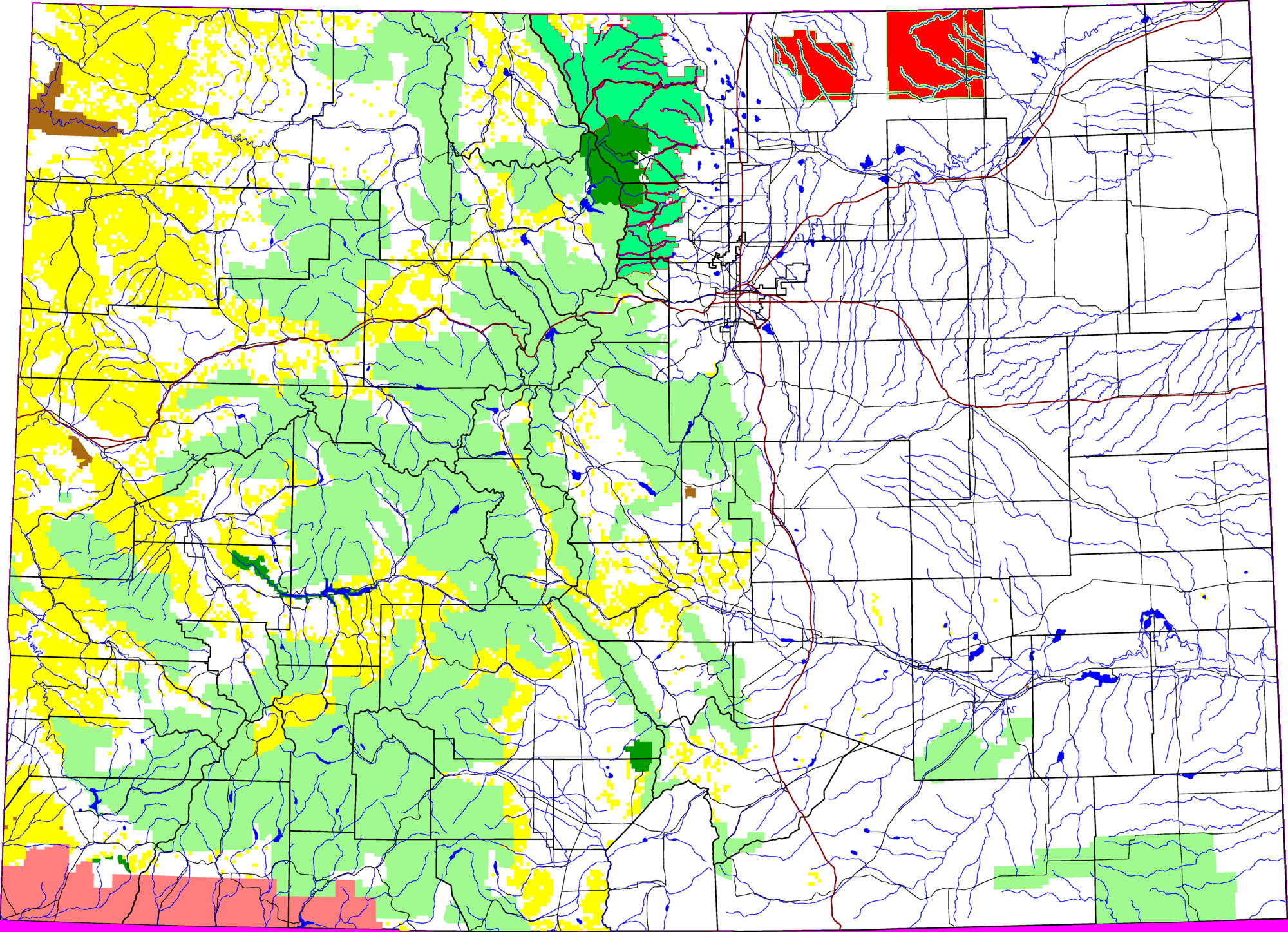 A map of Colorado, with Pawnee National Grassland highlighted in red. The light green is other Forest Service land, yellow is BLM land, dark green is National Park, brown is National Monument or National Historic Site, pink is Indian reservation. The reddish lines are Interstate Highways. The map uses the azimuthal equidistant projection, centered on (-105.7167, 39.1333) (degrees latitude, longitude).